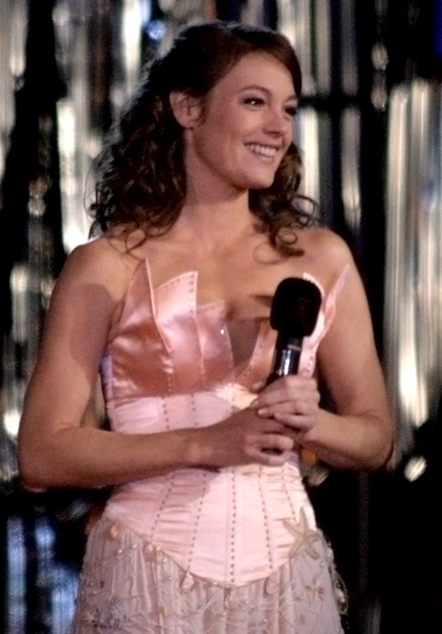 Elke Winkens at the Life Ball 2009, Rathaus, Vienna.